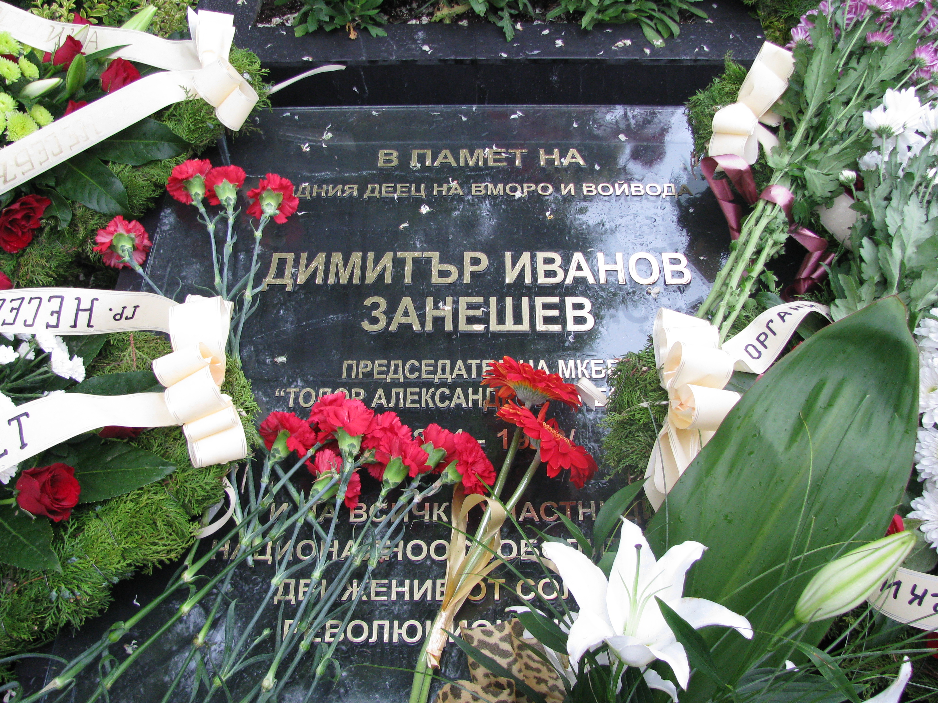 Plaque of Dimitar Zaneshev in Nesebar